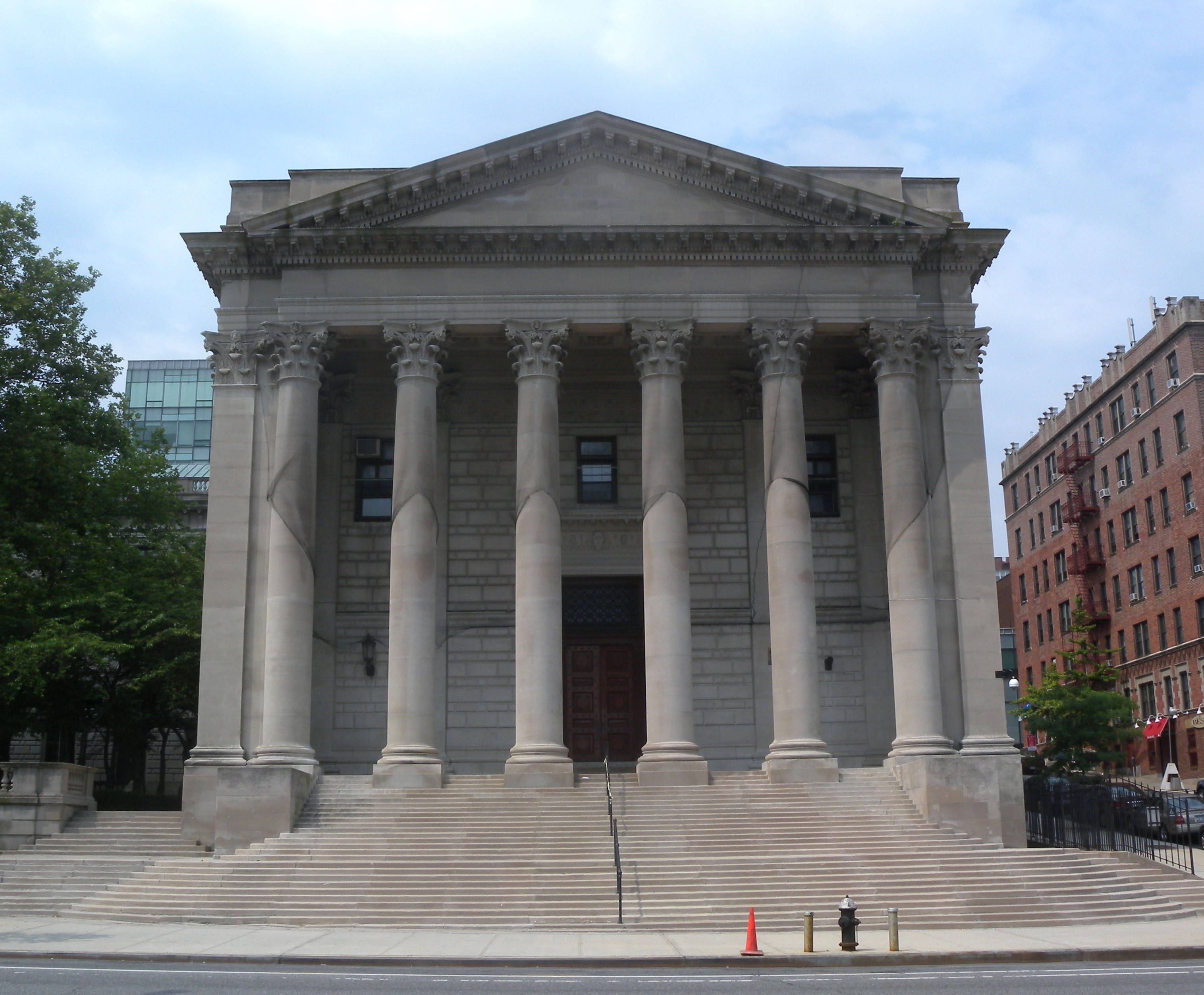 Looking west across Richmond Terrace at County Courthouse on a hazy late morning.